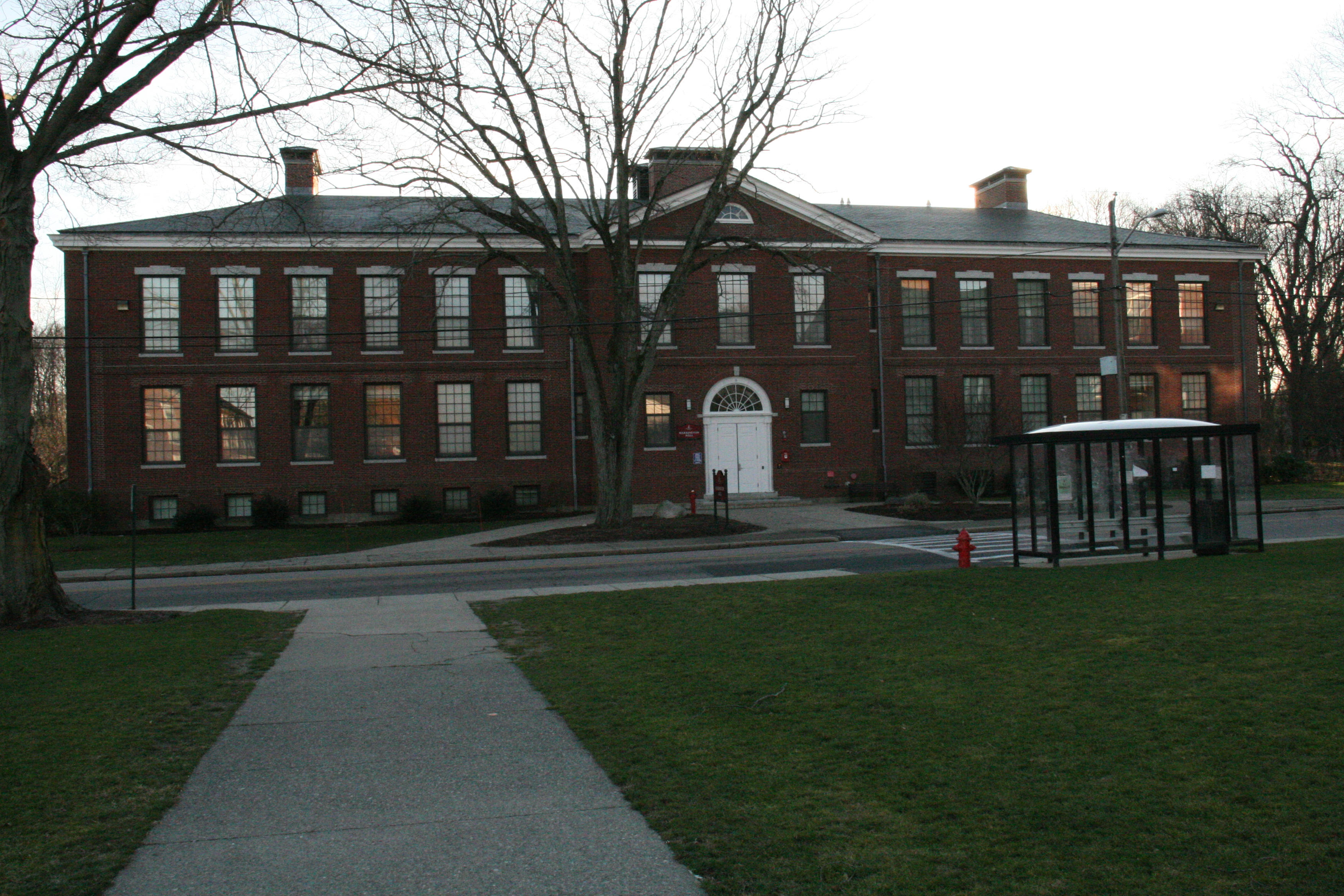 Bridgewater University 95 Grove St Bridgewater Ma.